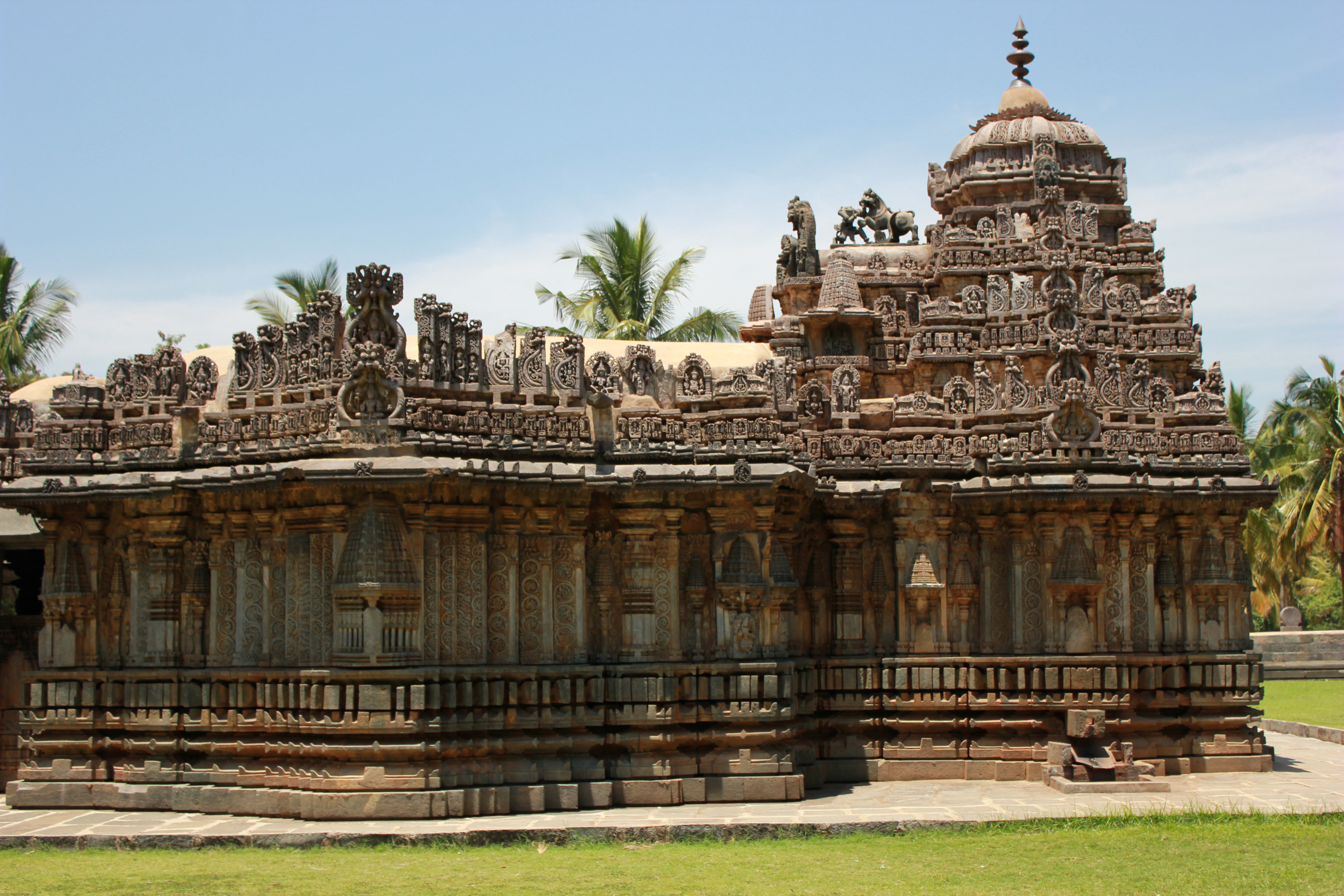 This photograph was taken by self (Dinesh Kannambadi) at the Amrutesvara temple (also spelt Amruteshvara or Amruteshwara) in Amruthapura, Chikkamagaluru district, Karnataka state, India. The temple was built in 1196 C.E. during the rule of the Hoysala King Veera Ballala II.